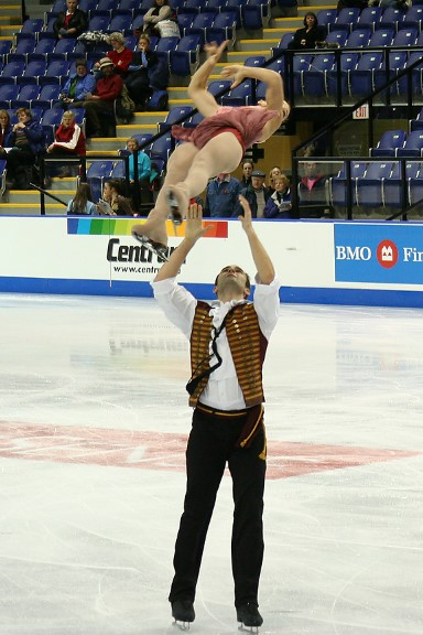 Tiffany Vise & Derek Trent perform a twist lift at the 2006 Skate Canada International.